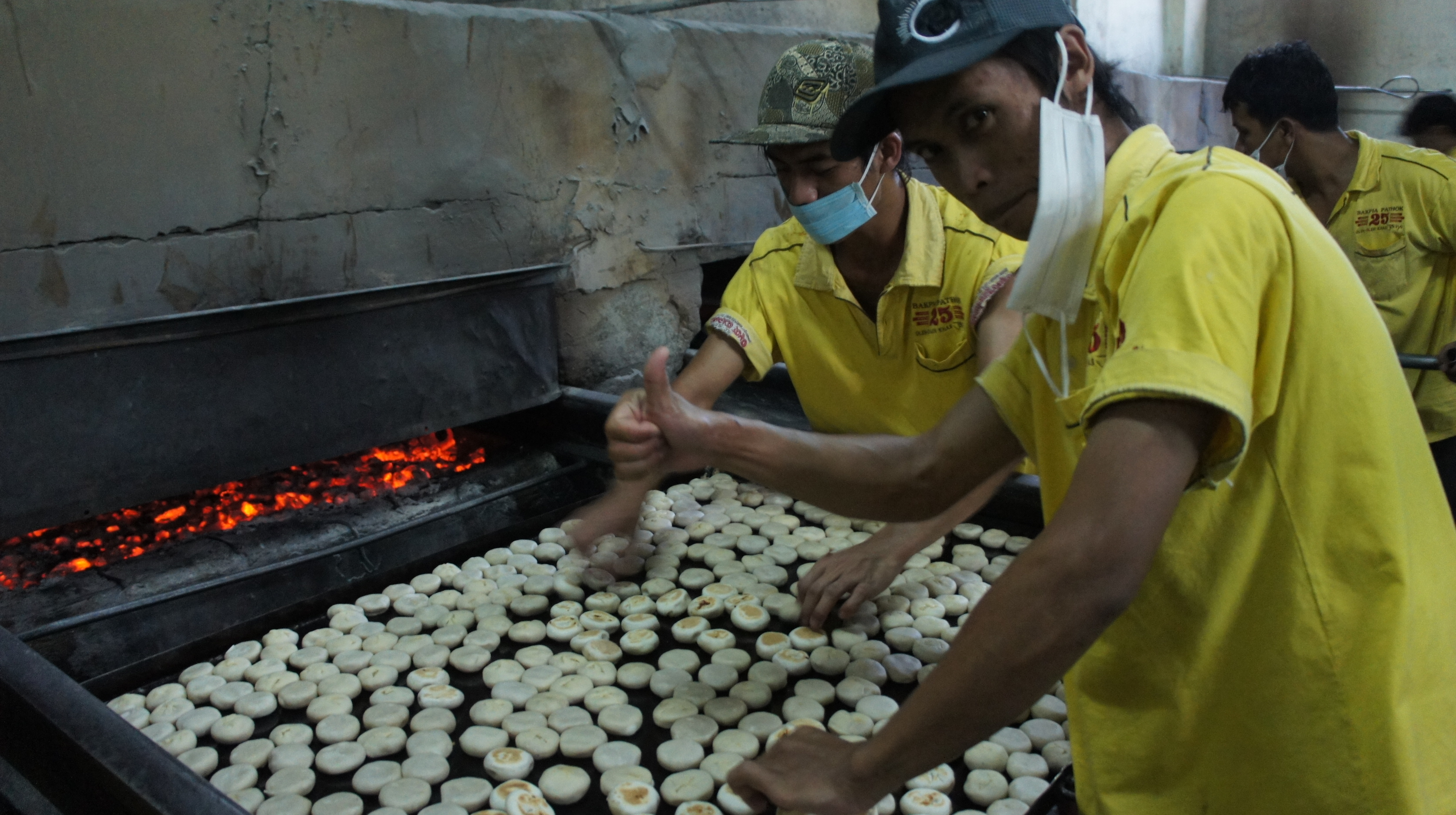 Baking bakpia, Yogyakarta, Indonesia